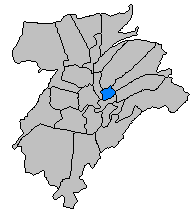 Map of Luxembourg City, Luxembourg, with the boundaries of the city's twenty-four quarters demarcated and the quarter of Clausen highlighted in blue.